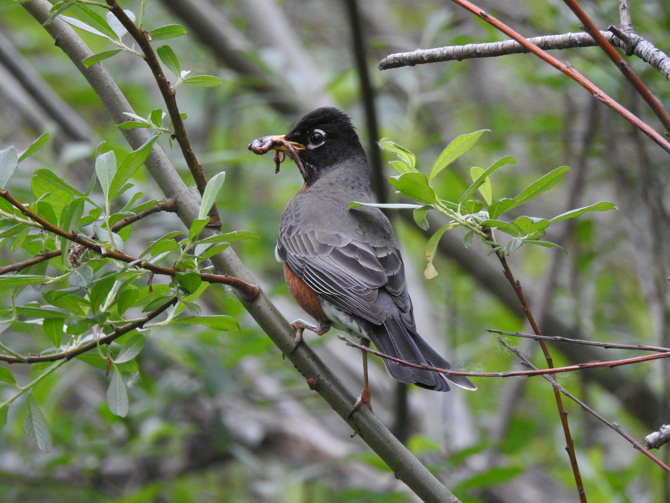 A male American Robin with a worm, taken in late May 2018 in Washington State.